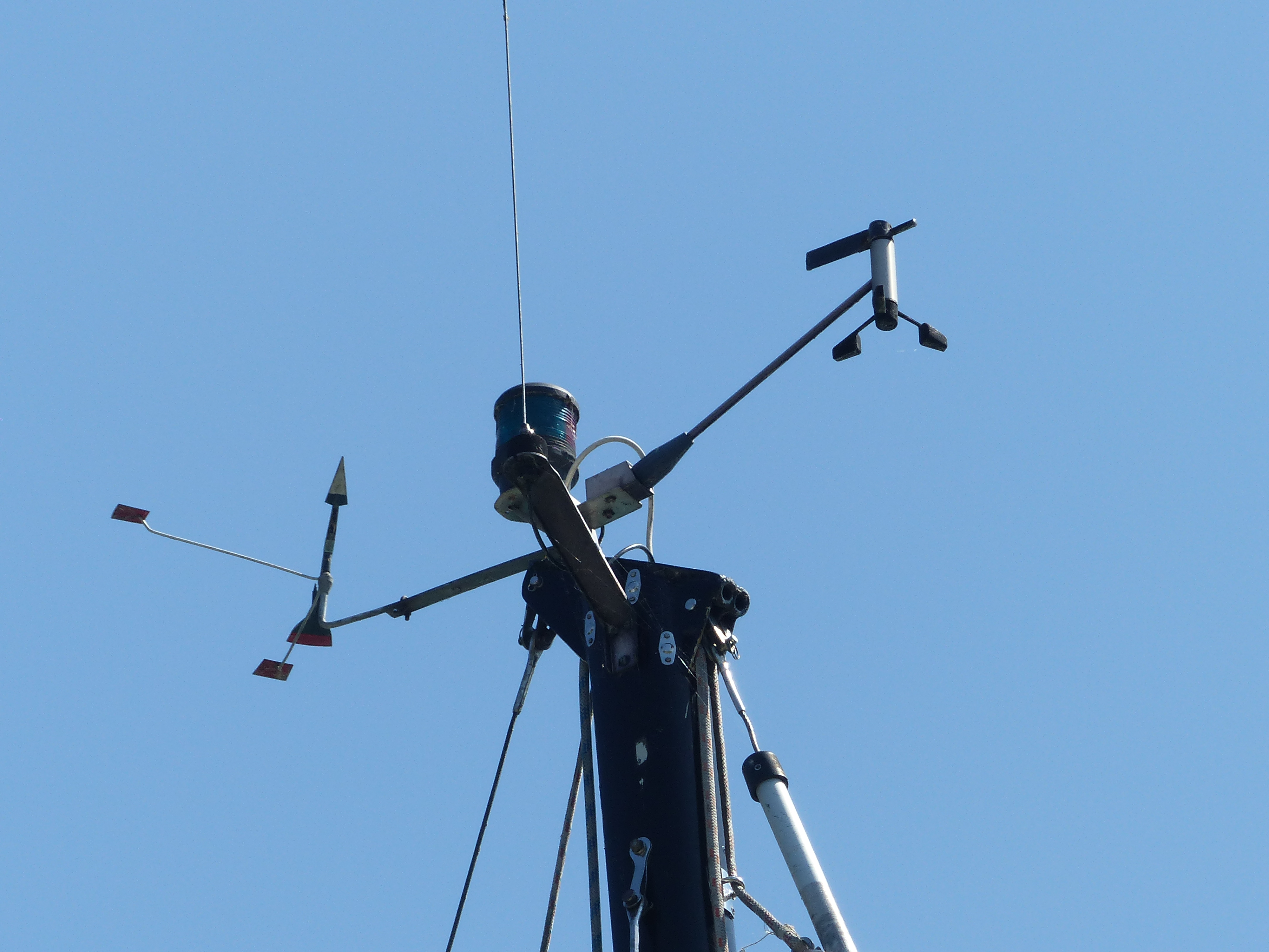 Windex. Taken on the 25th of August, 2017. Sailing from Balatonkenese in the direction of Balatonfűzfő.